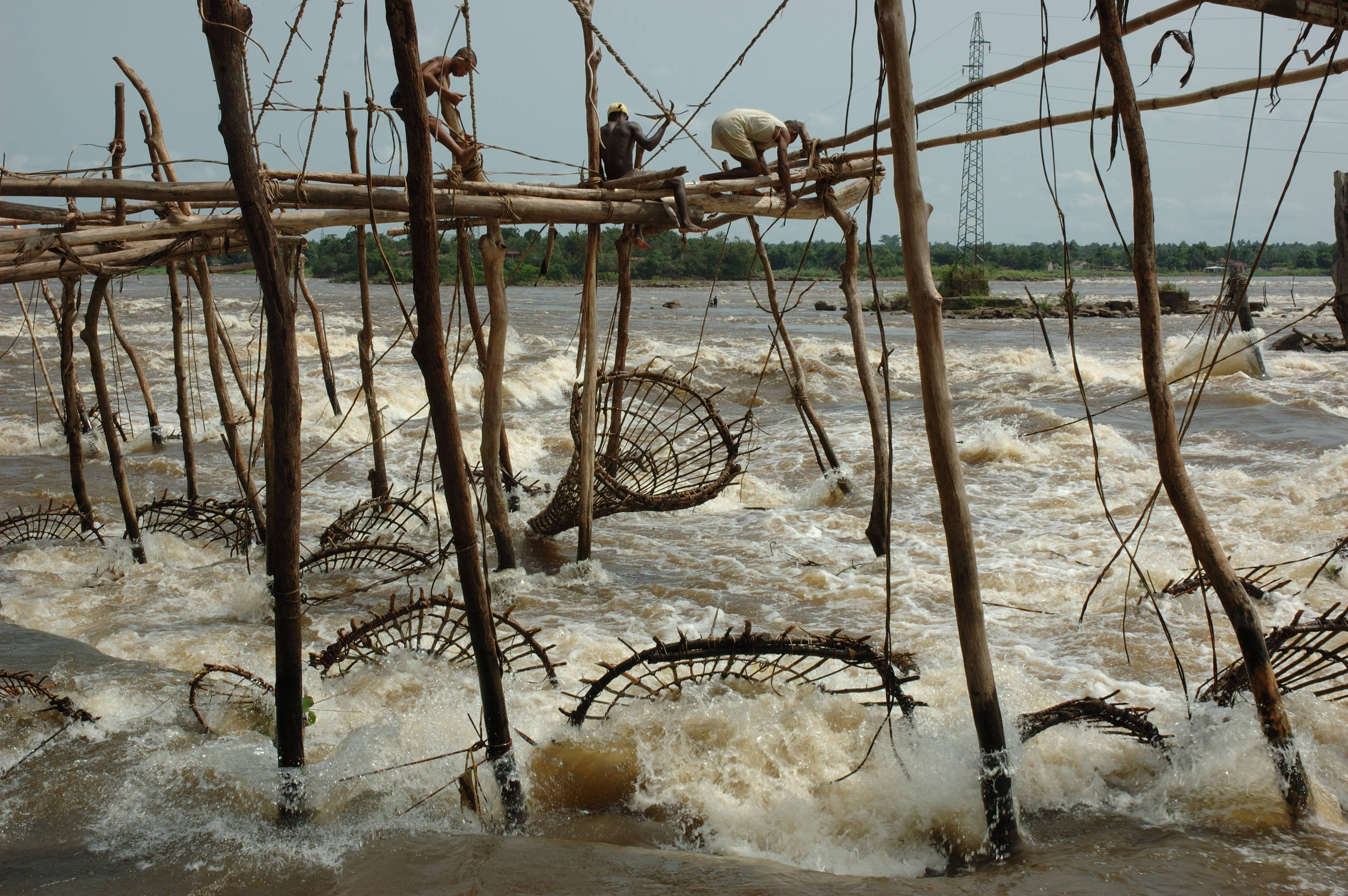 The local Wagenya peoples fishing community works the Boyoma Falls (aka: Stanley or Kisangani falls) on the Lualaba River, near Kisangani in the Democratic Republic of the Congo. They attach conical fish traps to wooden frames to catch the fish thrown downstream by the rapids. "The school, health centre, and hospital (we visited) serve the fishing community."